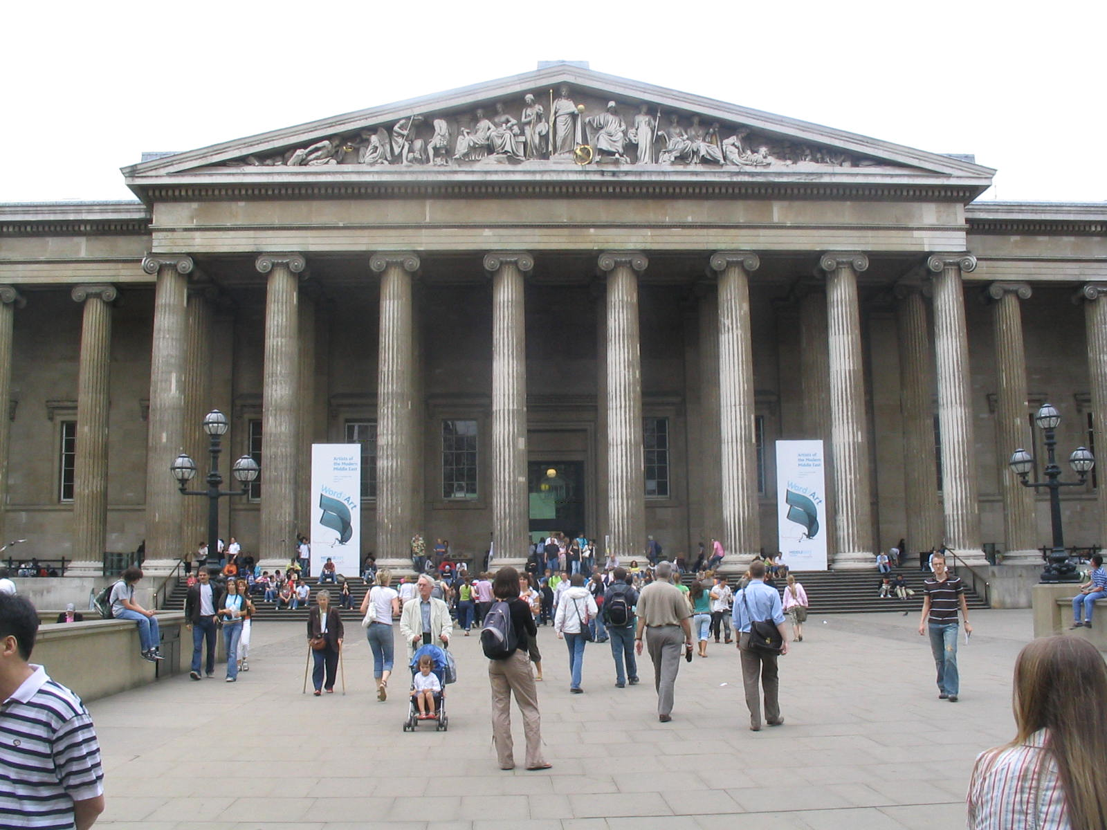 Front façade of the British Museum.